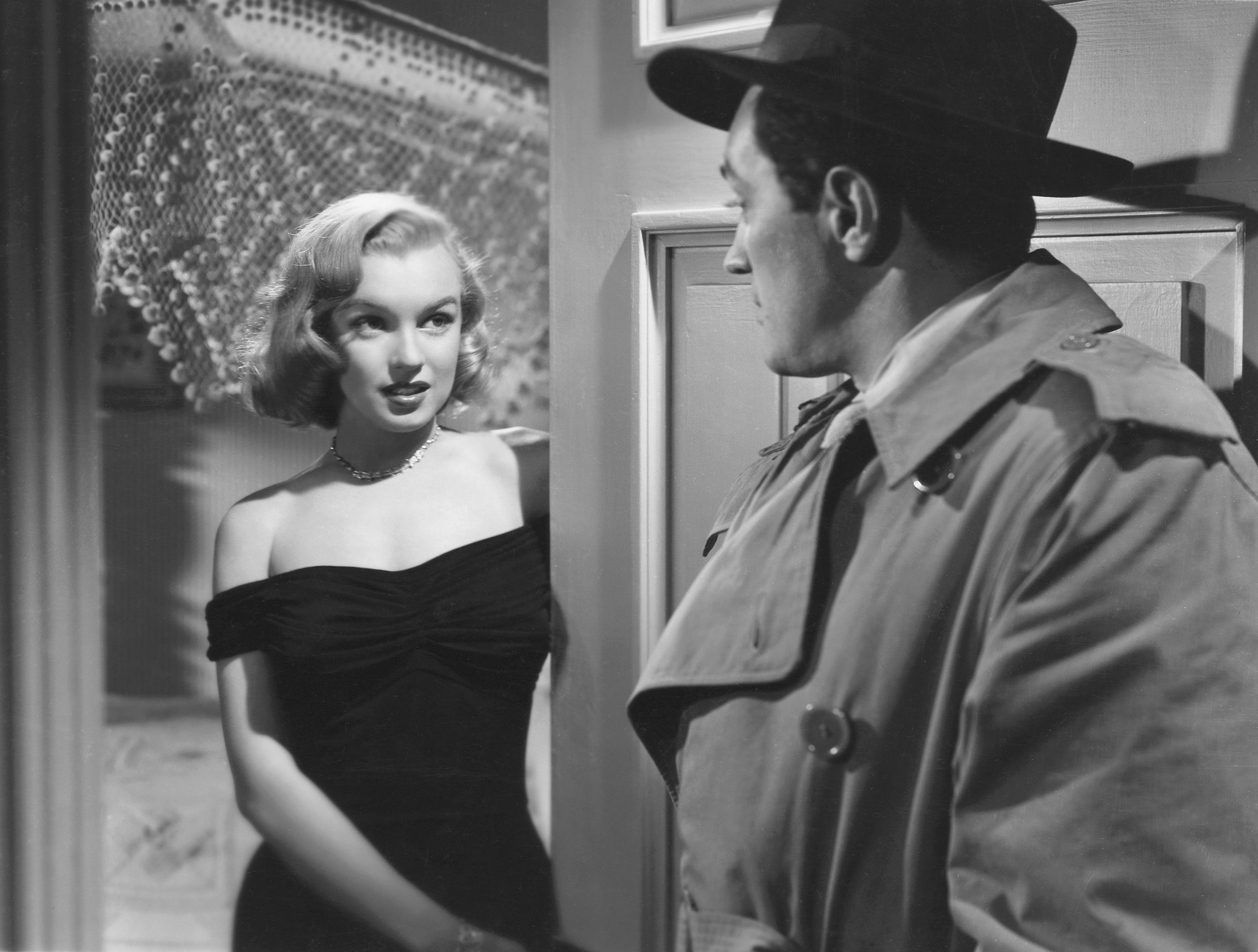 Photo of Marilyn Monroe in the Asphalt Jungle from the May 1961 issue of TV-Radio Mirror. Note this is a larger, better quality copy of the photo seen on Radio-Tv Mirror page 20. A renewal search was done at using the title Radio-TV Mirror. There were no listings for the publication; there's no evidence of continued copyright on the magazine.